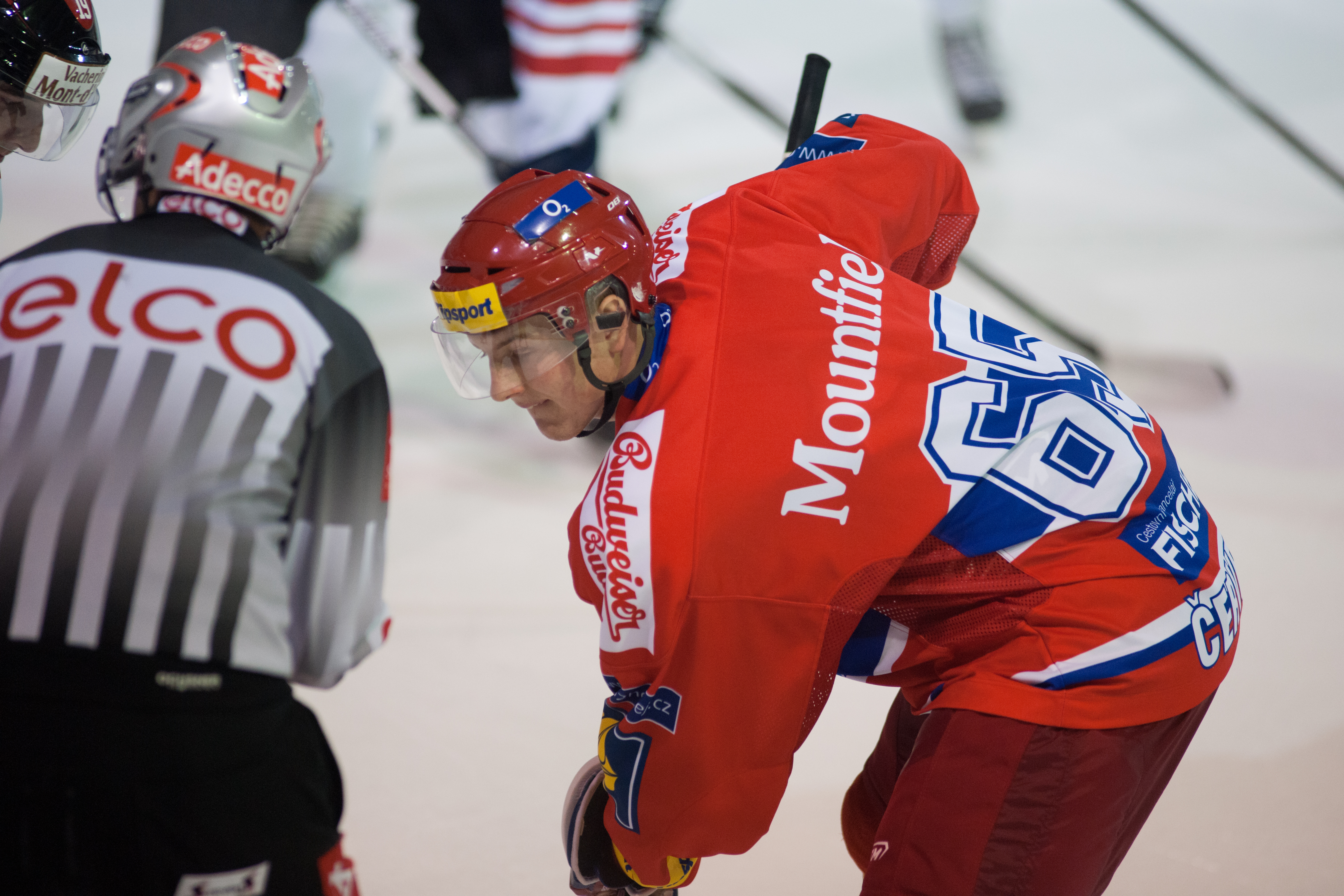 Festyvhockey 2010, Yverdon-les-Bains. The making of this document was supported by Wikimedia CH. (Submit your project!) For all the files concerned, please see the category Supported by Wikimedia CH.